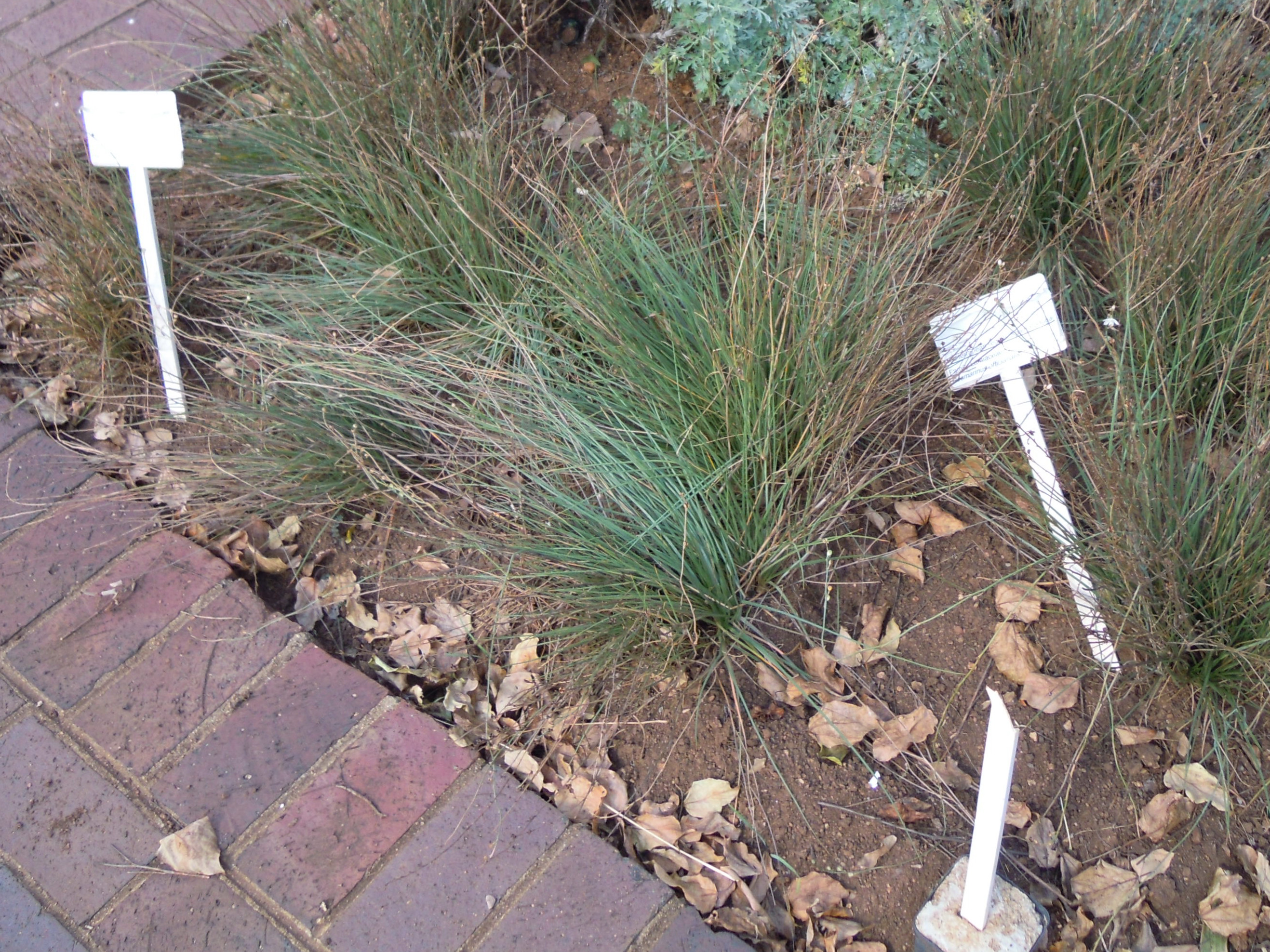 Confusing and lack of signage in herb garden